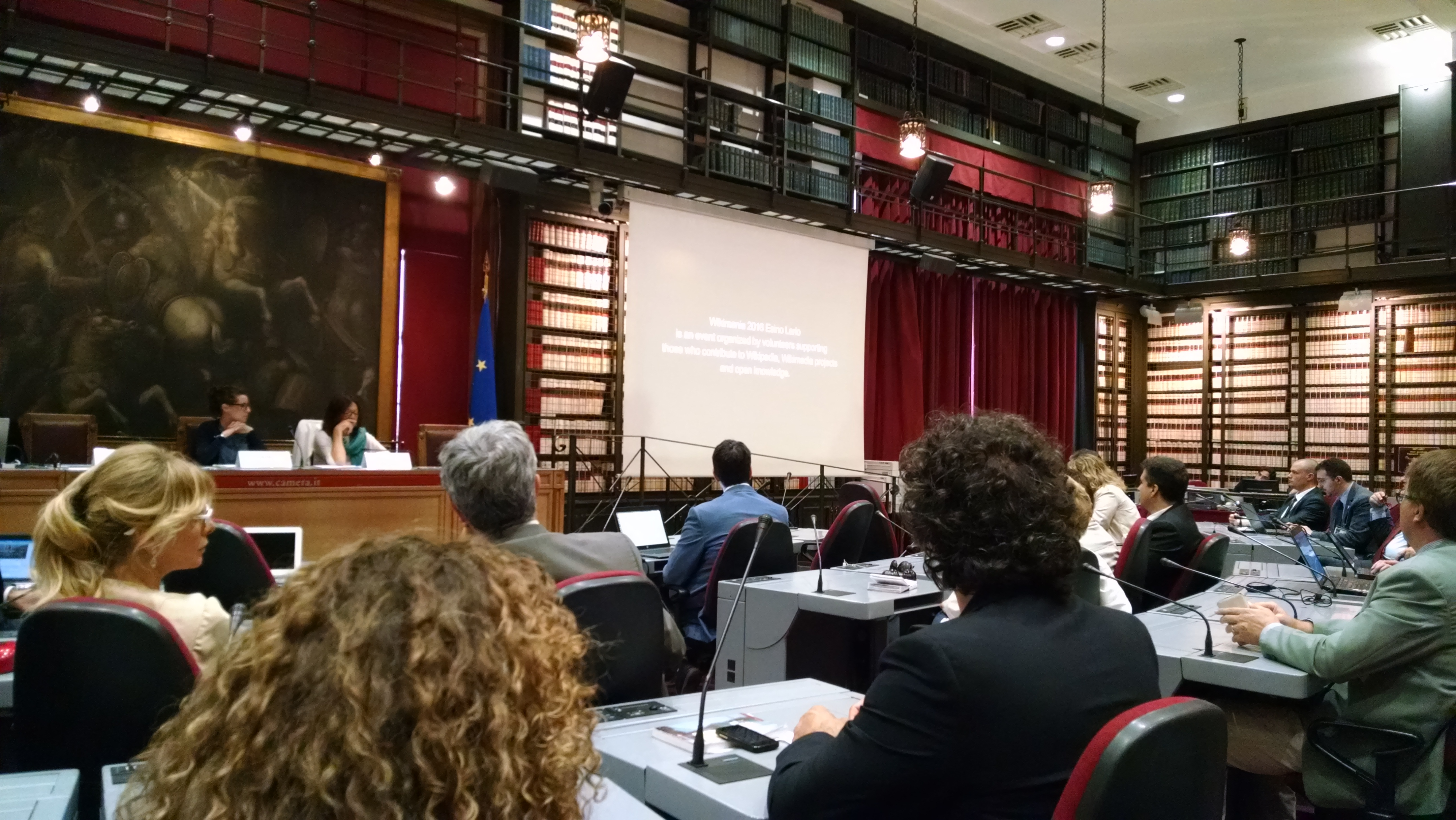 Meeting held in the Hall of the Globe at Palazzo Montecitorio between the parliamentary intergroup innovation, the Chamber of Deputies and Wikimedia Italy Association